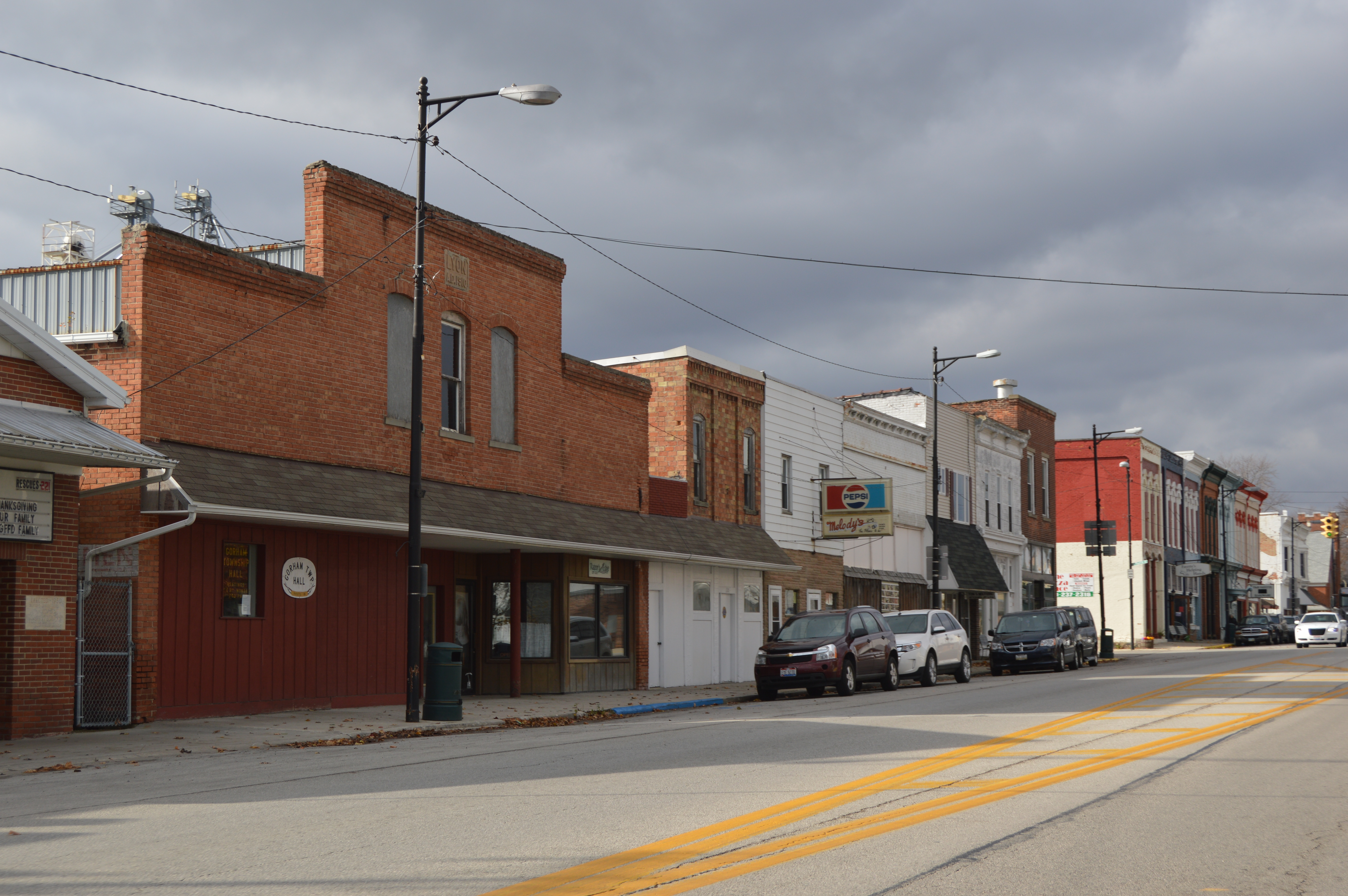 Buildings on the southern side of Main Street (U.S. Route 20) just east of the Fayette Street intersection in Fayette, Ohio, United States.